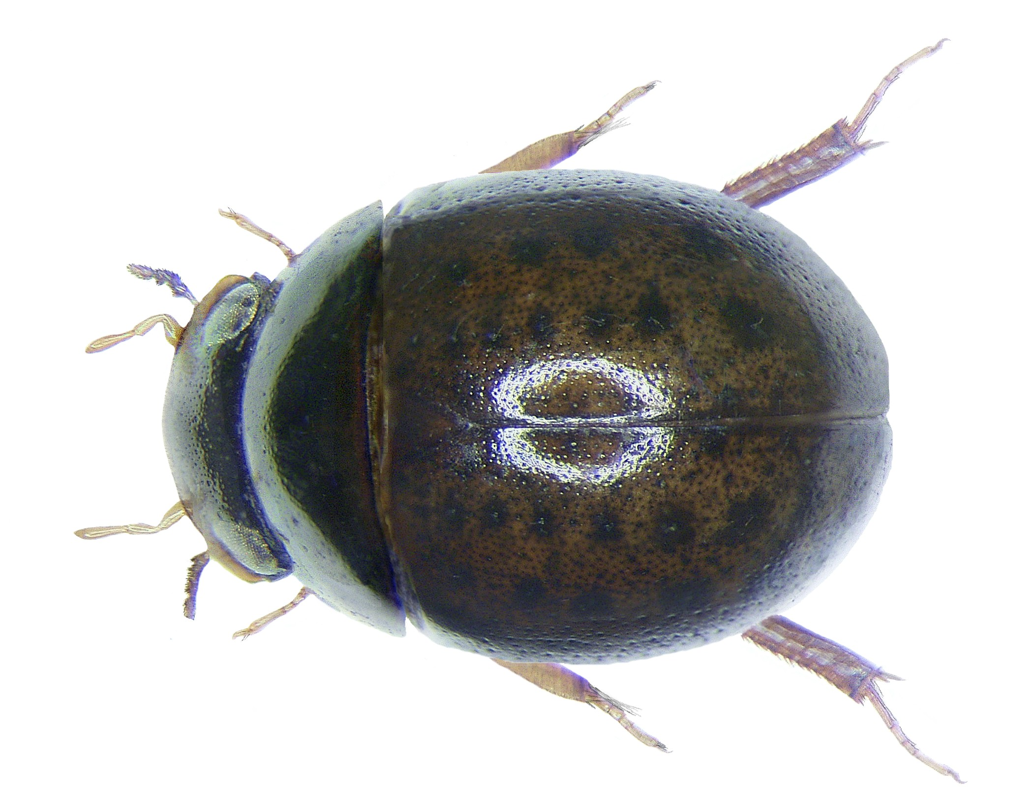 Amphiops mirabilis Familie: Hydrophilidae Grösse: 3,7 mm Fundort: Thailand, Khao Lak leg. U.Schmidt, 2007; det. A.Skale, 2007 Foto: U.Schmidt, 2008